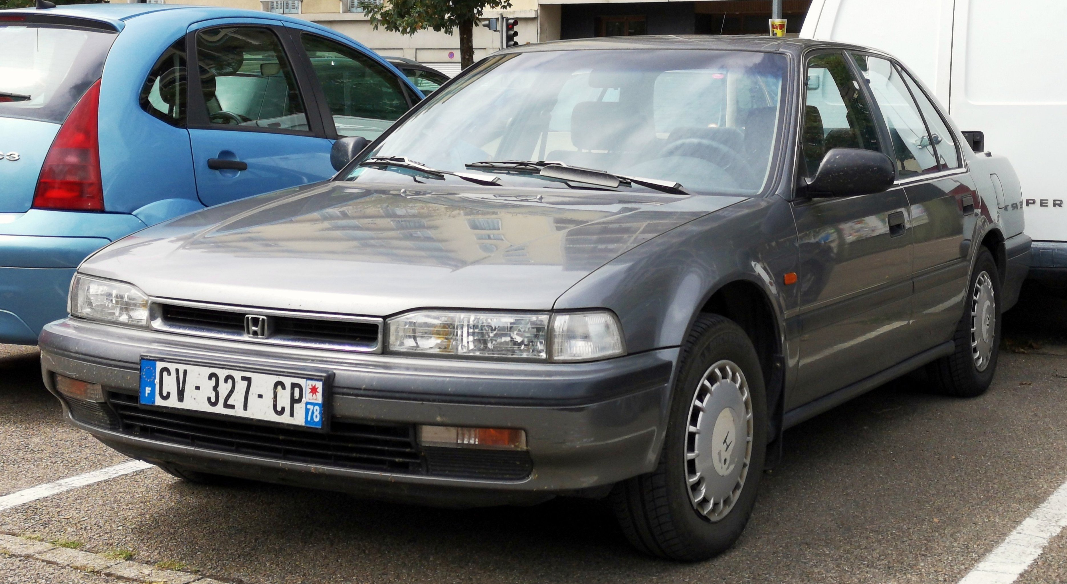 1990 Honda Accord (2.0 135 hp) at Chalon sur Saône